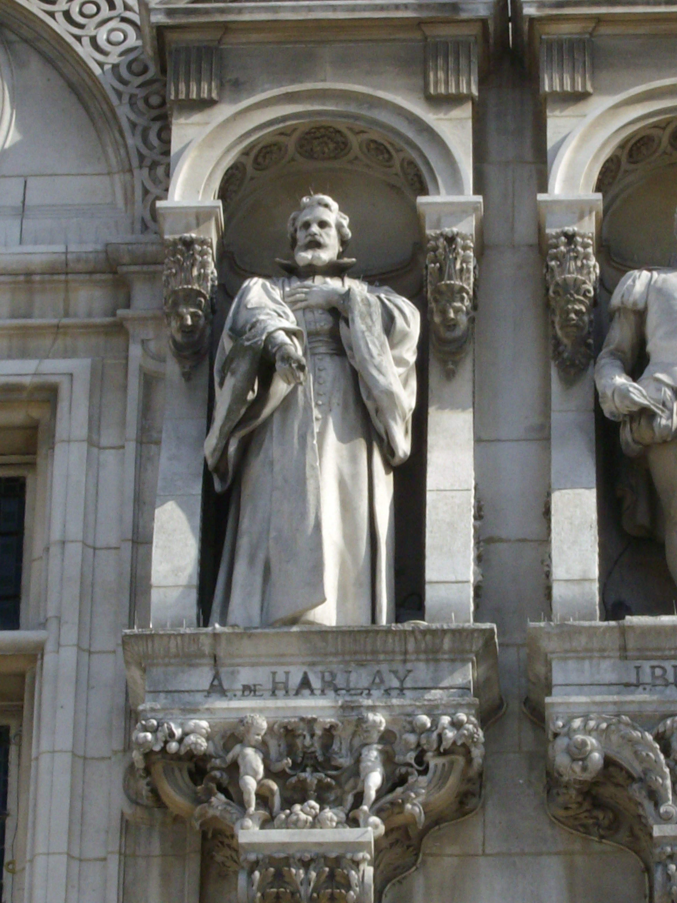 Statues of the City Hall in Paris, France